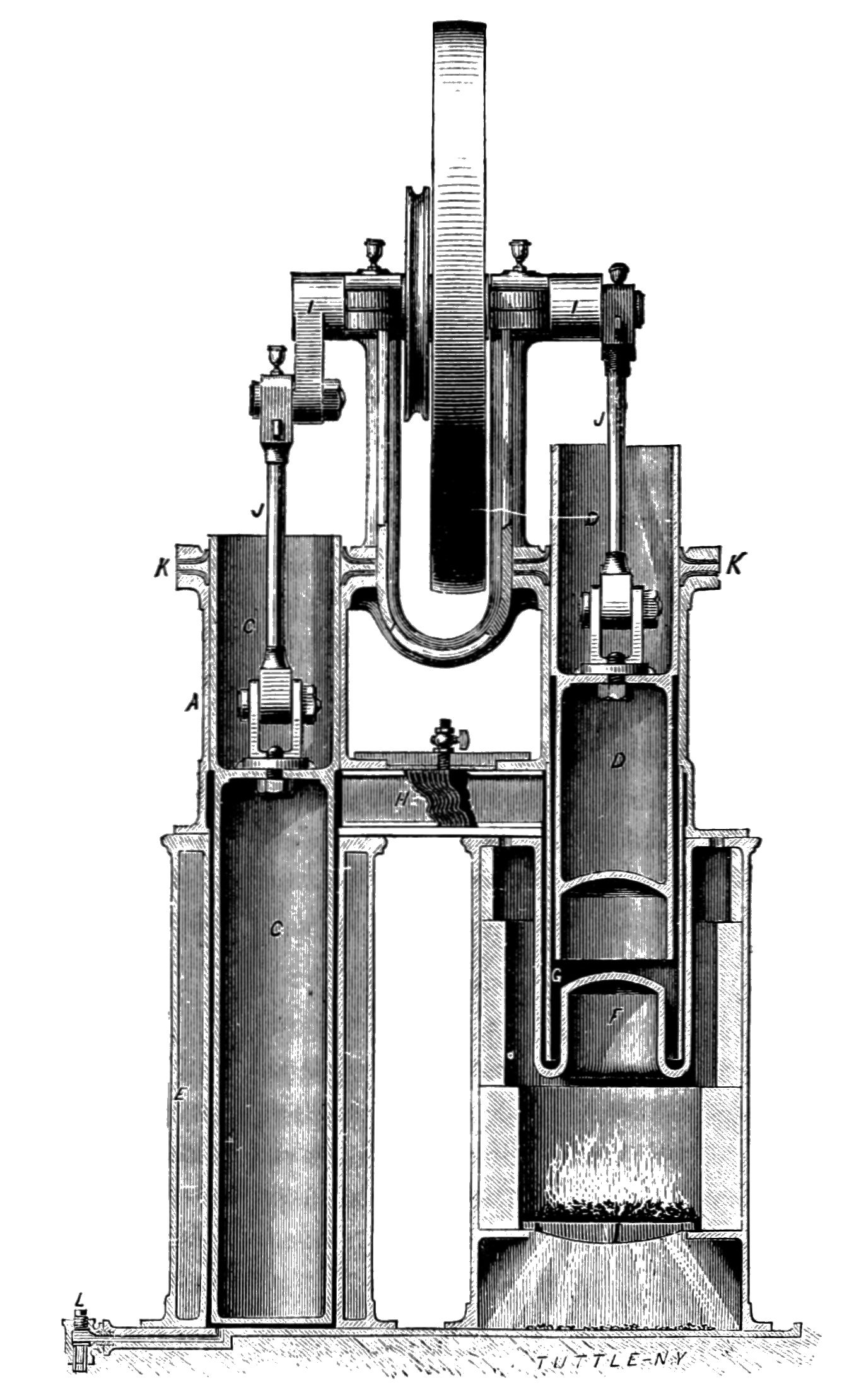 Sectional view of the rider compression engine